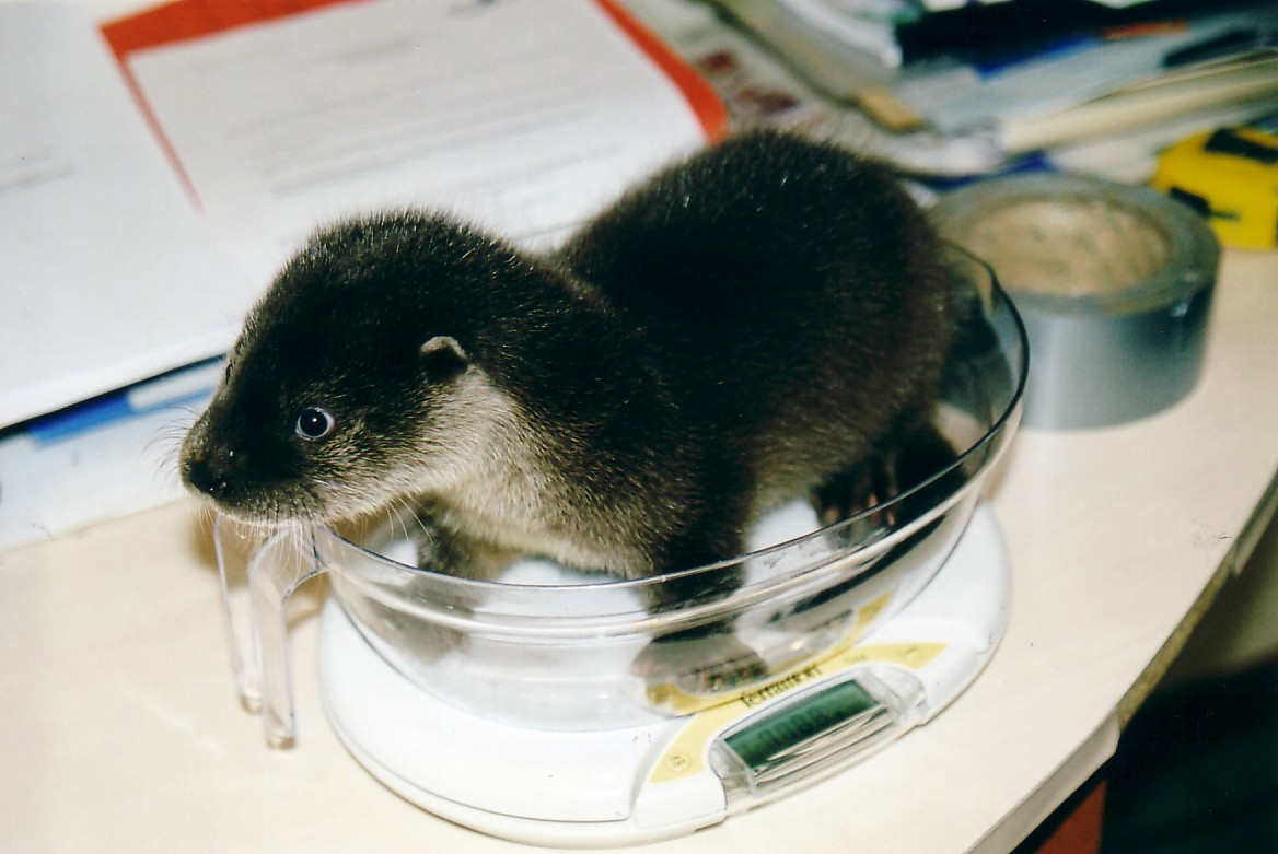 Otter cub